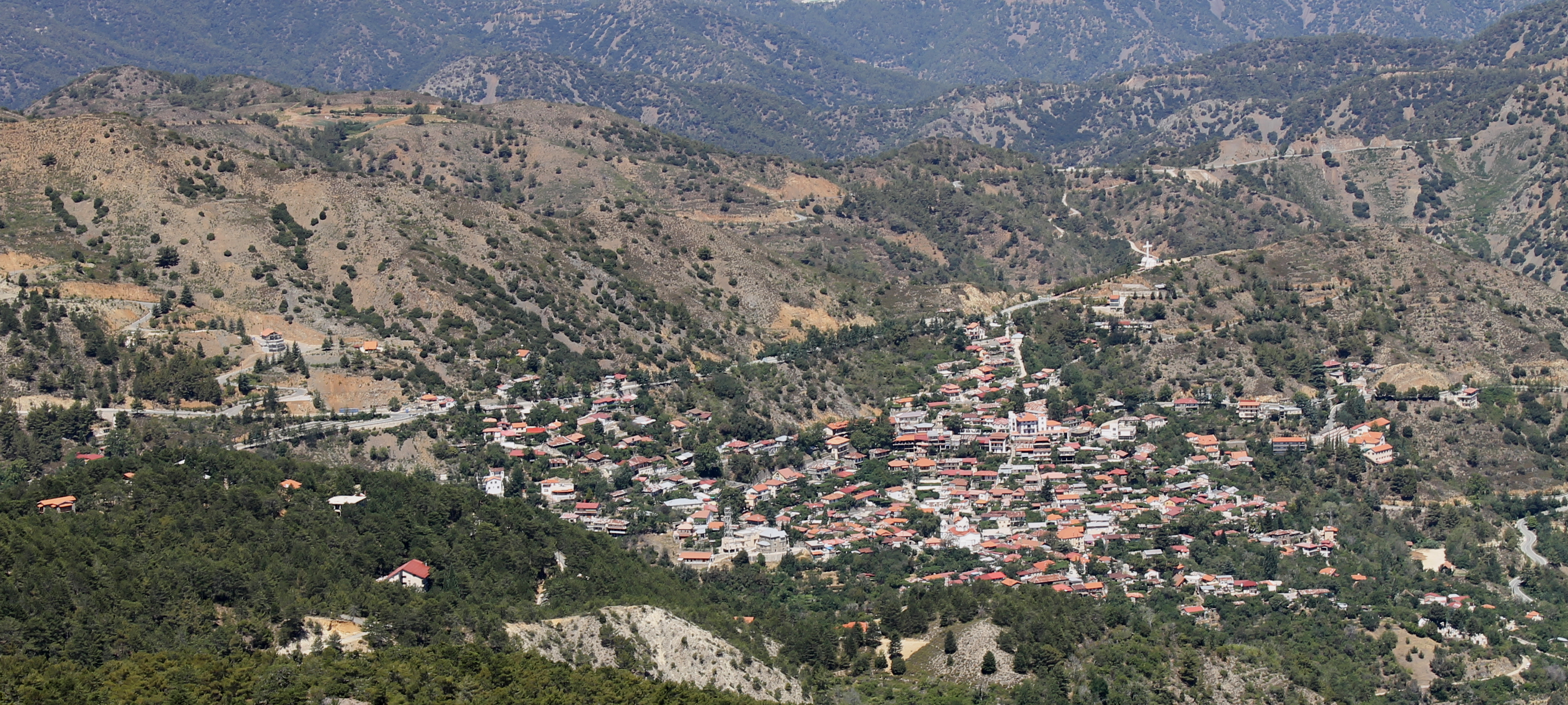 A panorama of Pedoulas, a village in Cyprus. Taken from a path on Mount Olympus.